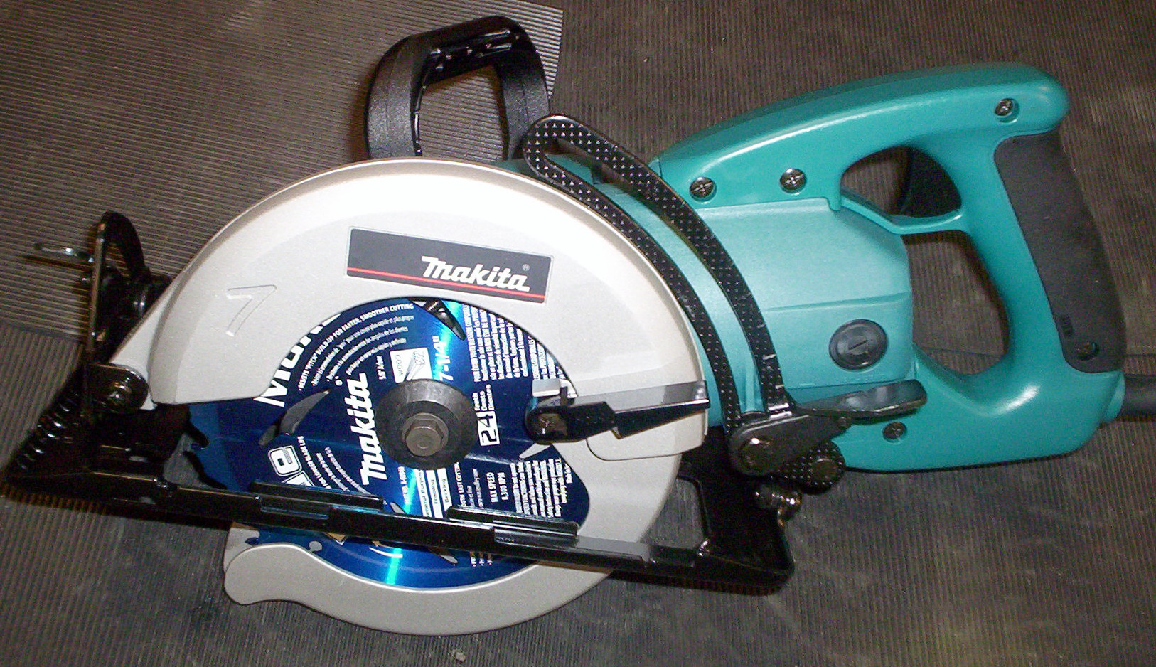 The Makita 5057KB in its unloaded state.